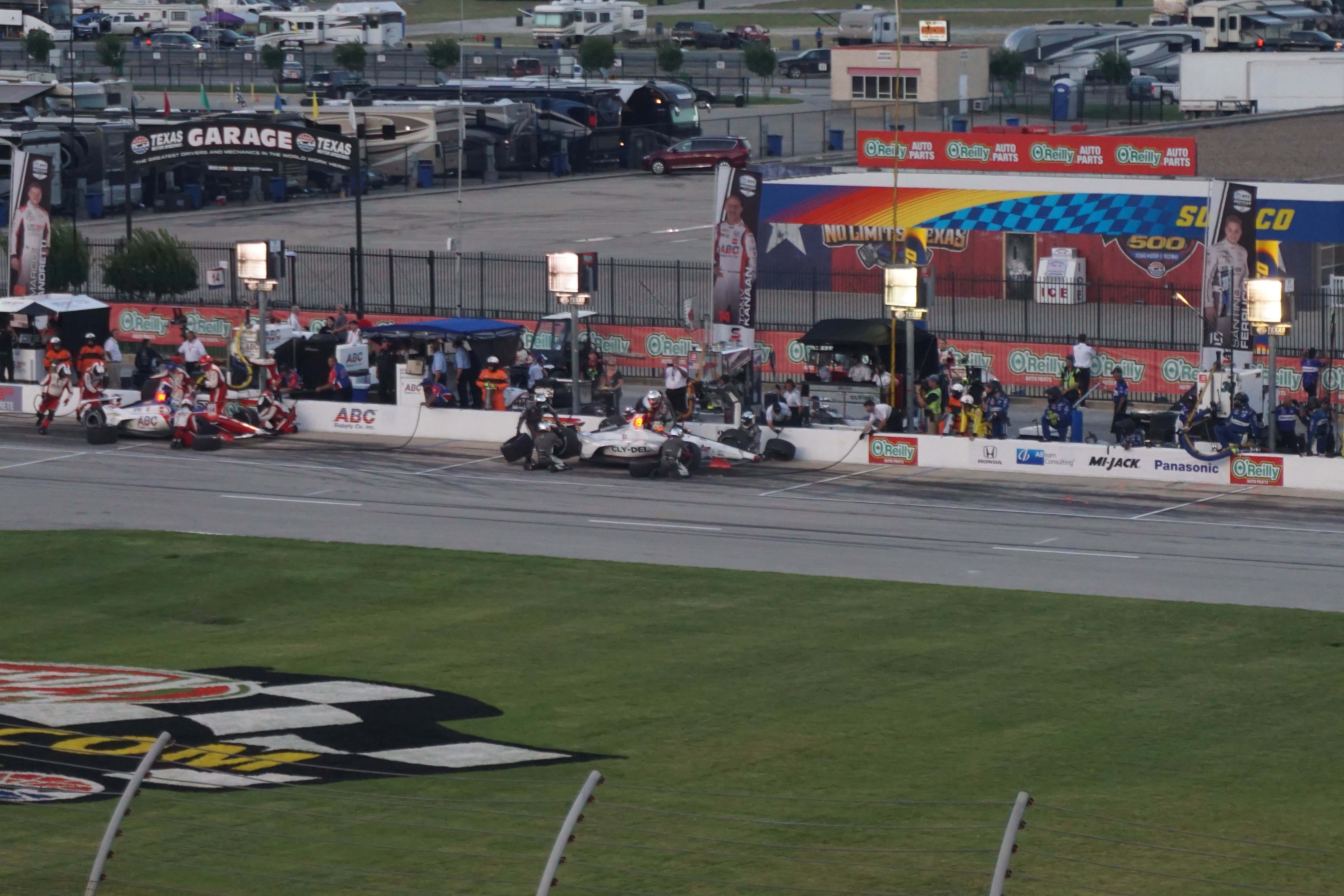 Tony Kanaan and Santino Ferrucci making pit stops during the 2019 DXC Technology 600 at Texas Motor Speedway in Fort Worth, Texas (United States).